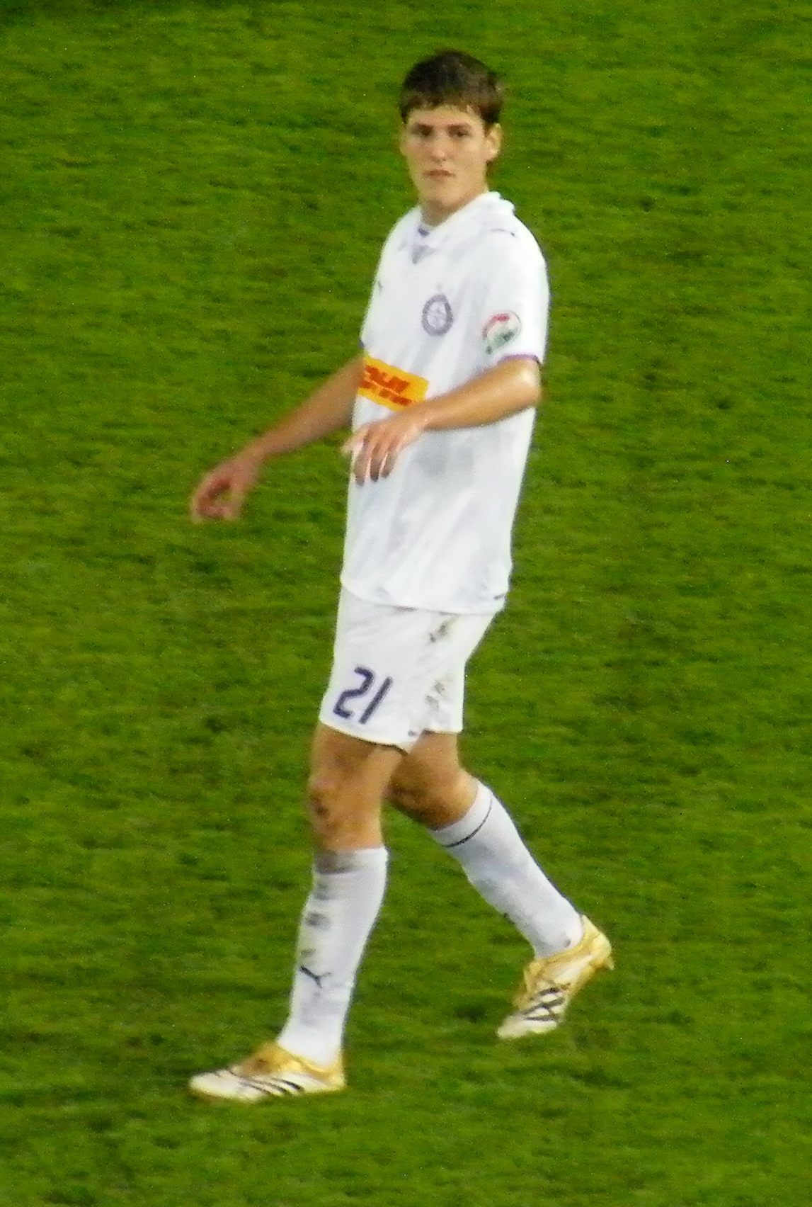 Zsolt Korcsmár Hungarian association football player.